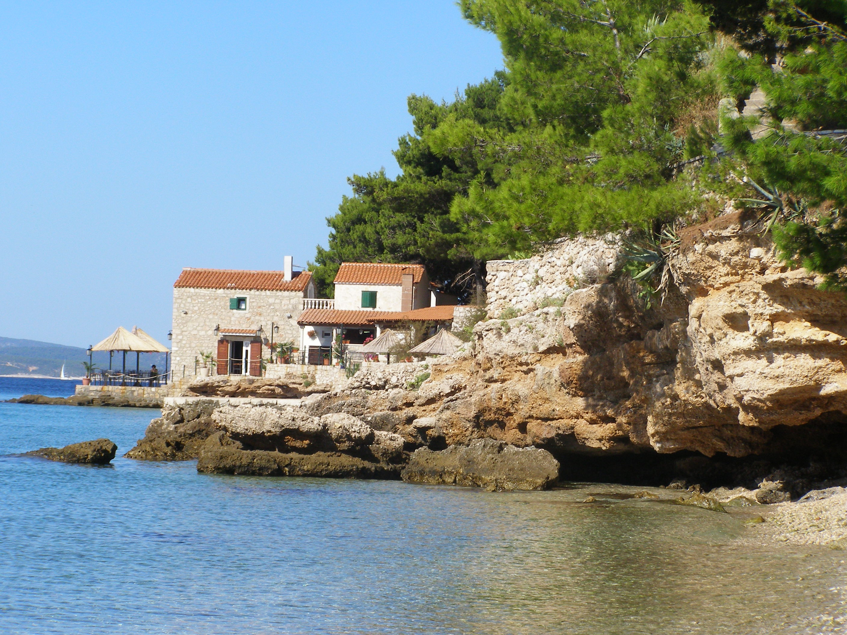 Bol, Brac, Croatia